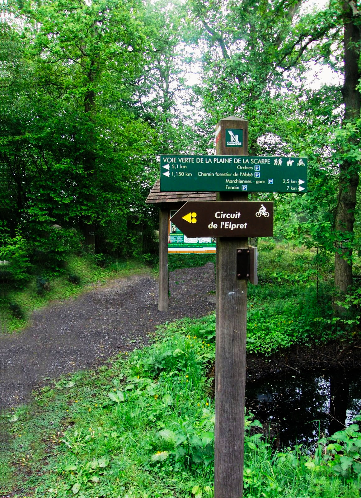 Circuit de l'Elpret.- Forêt de Marchiennes dans le Nord région Nord-Pas-de-Calais France.